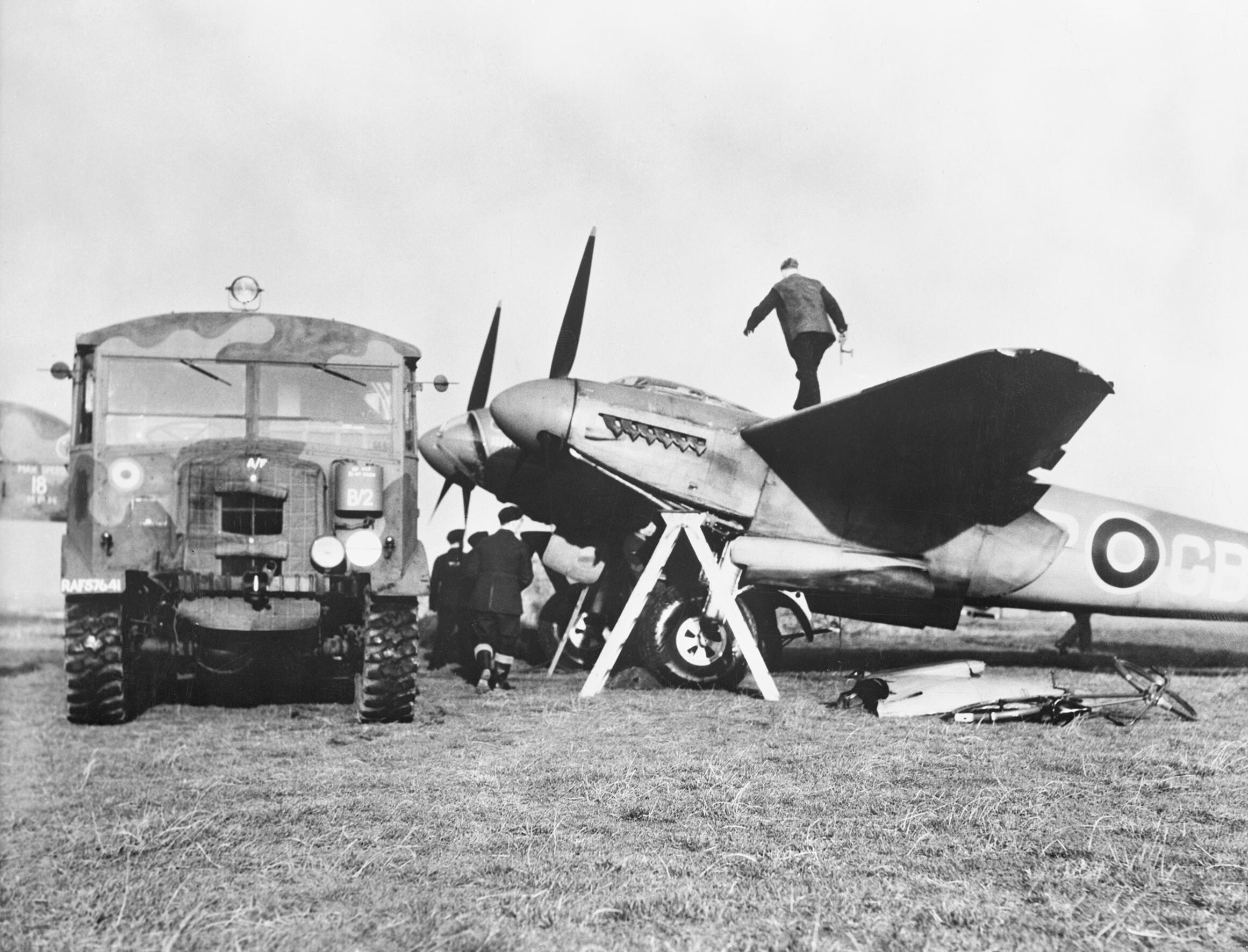 Operation OYSTER, the daylight attack on the Philips radio and valve works at Eindhoven, Holland, by No. 2 Group. De Havilland Mosquito B Mark IV, DK336, of No. 105 Squadron RAF is prepared for the raid at Marham, Norfolk.